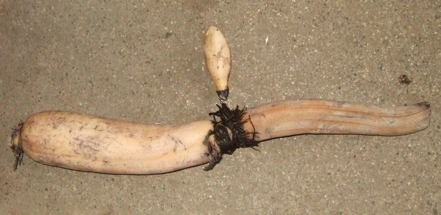 lotus root after washing off mud of a field(田の泥を洗い落とした後のレンコン)